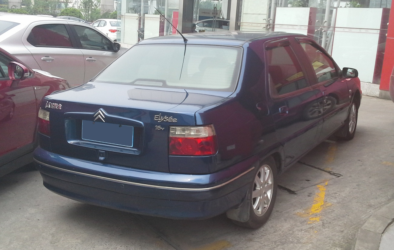 Citroën Elysée VIP photographed in Chongqing, China.